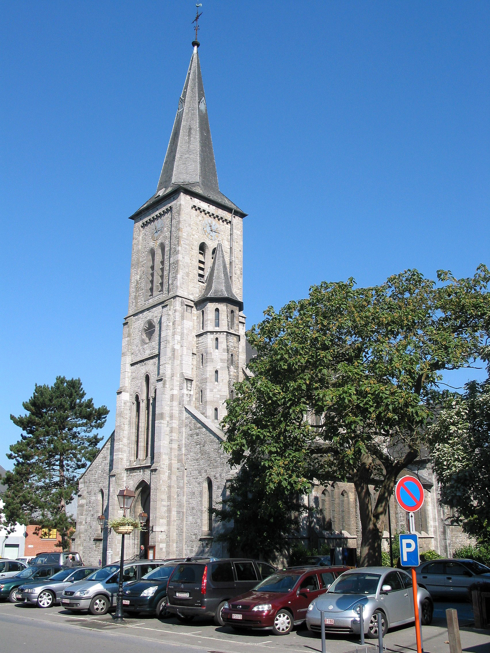 Profondeville (Belgium), the Saint Remigius' church (1897).